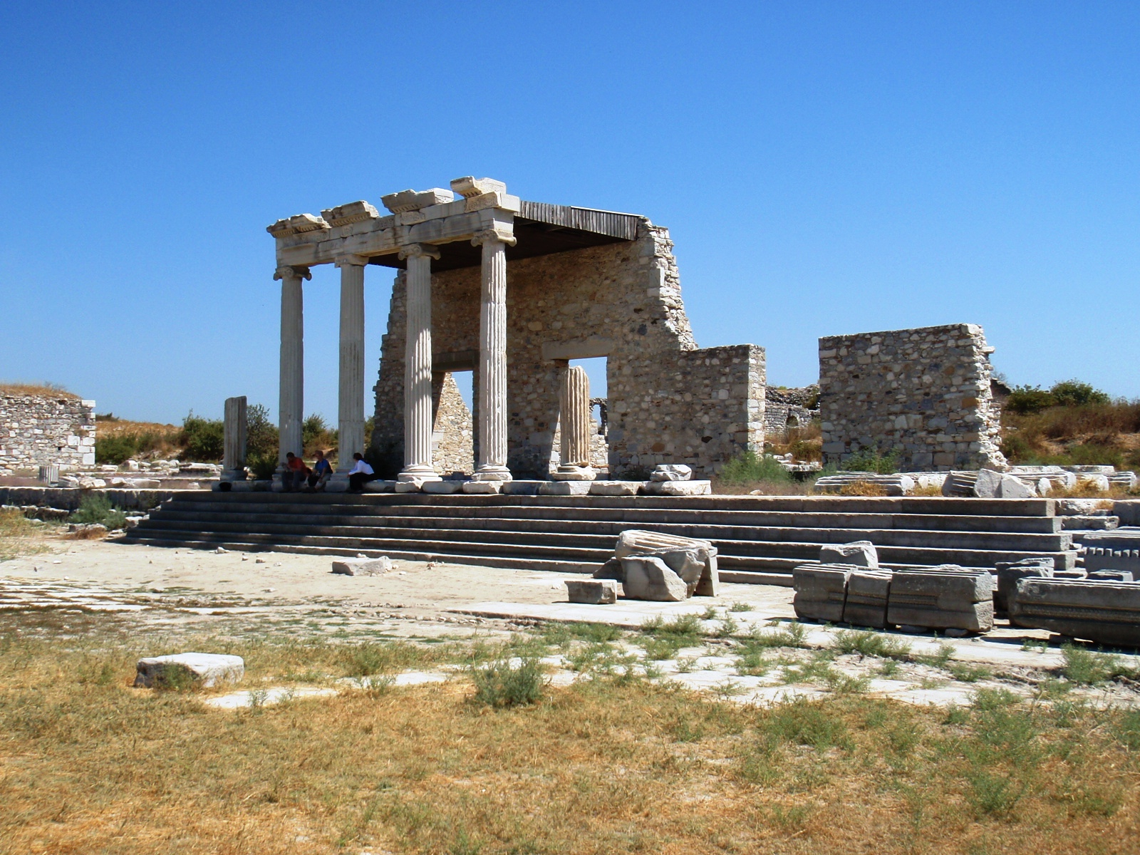 Ionic stoa in Miletus (despite the file name, not a temple).